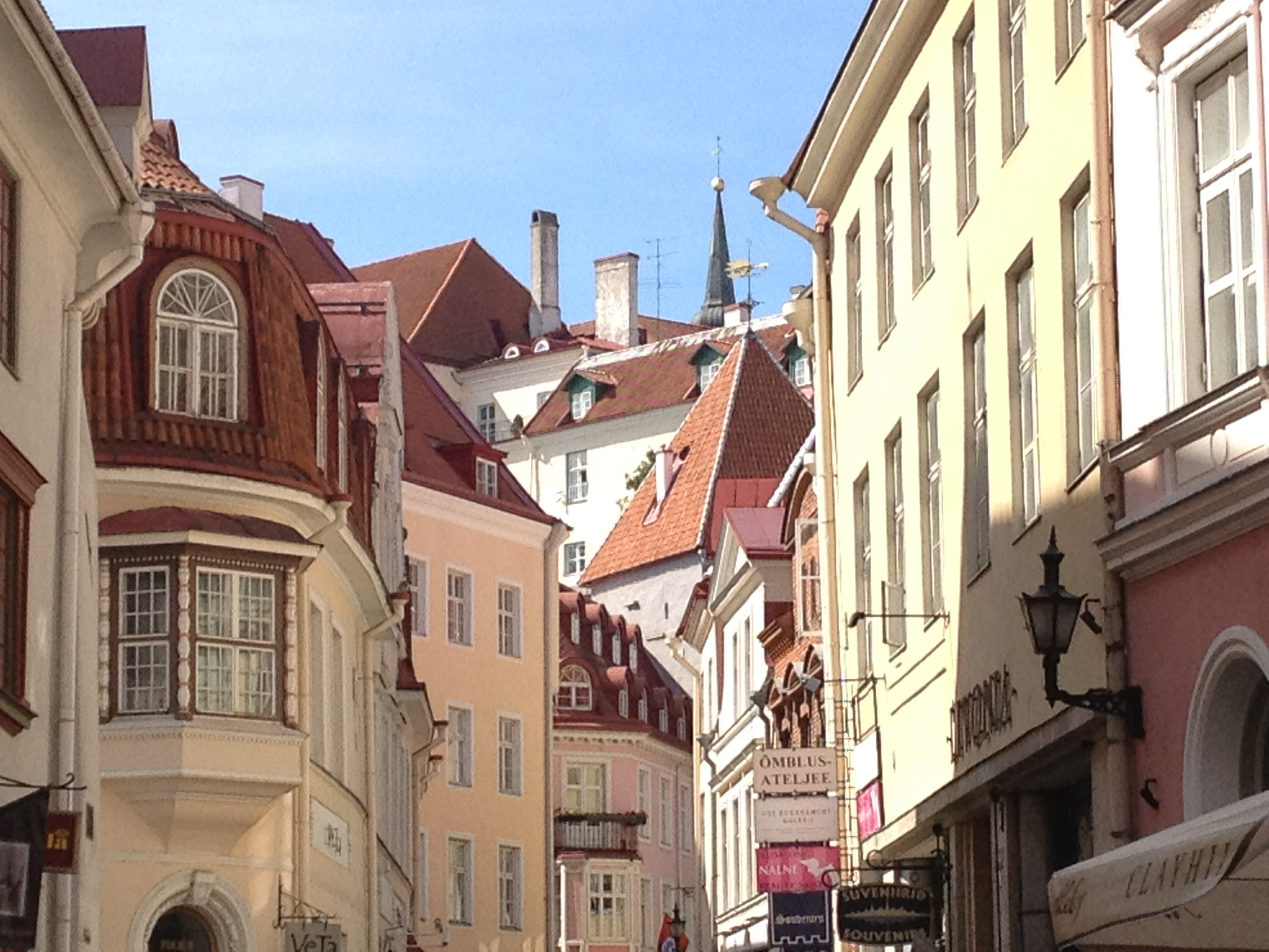 Nada como perderse entre las pequeñas calle del Centro Histórico d esta ciudad para apreciar su gente y sus colores y su arquitectura.